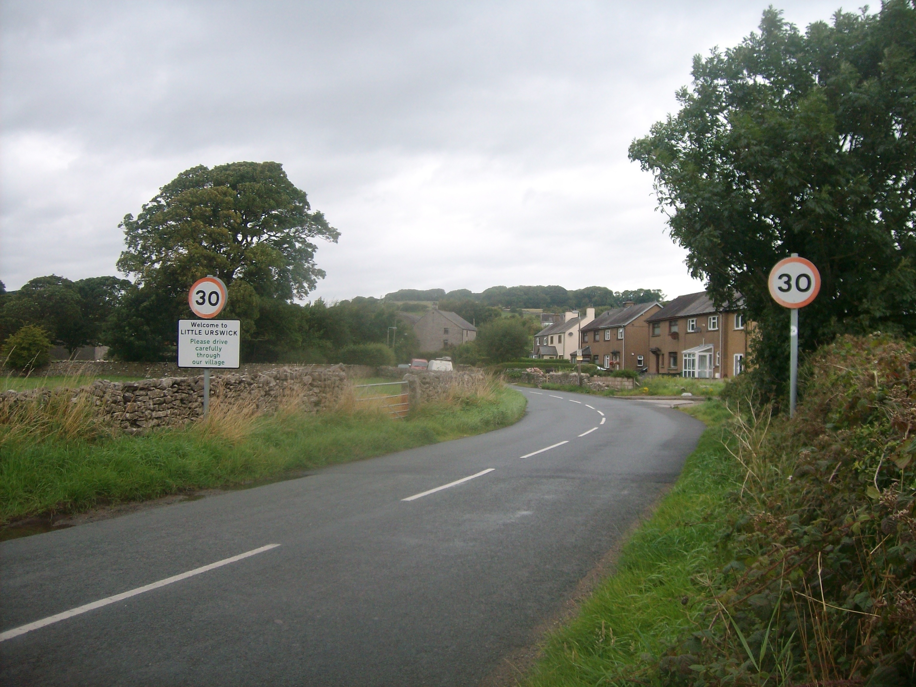 Little Urswick, the littlest of the Urswicks. It has a post box and a telephone box, and is therefore notable on Wikipedia.